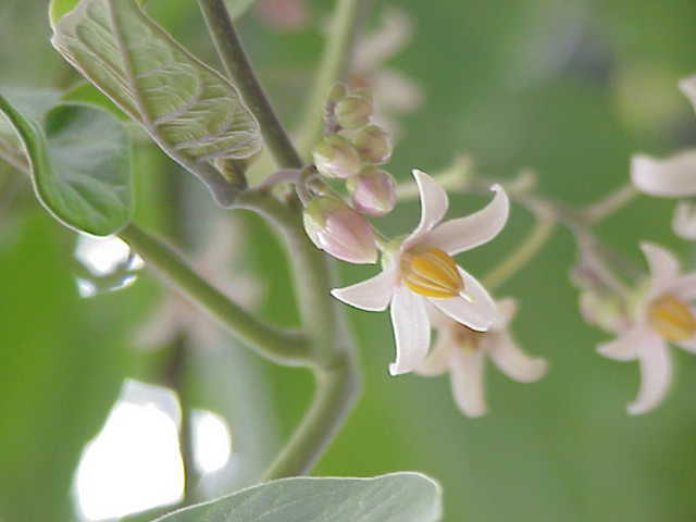 Species: Tamarillo (Solanum betaceum) Family: Solanaceae Image No. 2